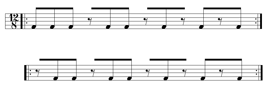 Standard bell pattern variations used in bembe and agbe